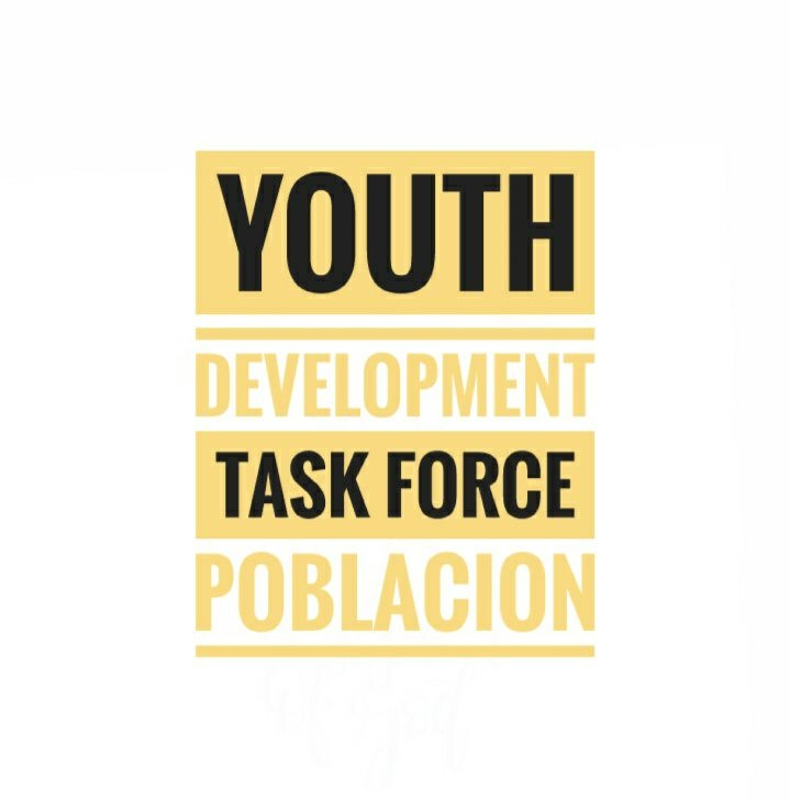 YDTF Poblacion (Youth Empowerment)